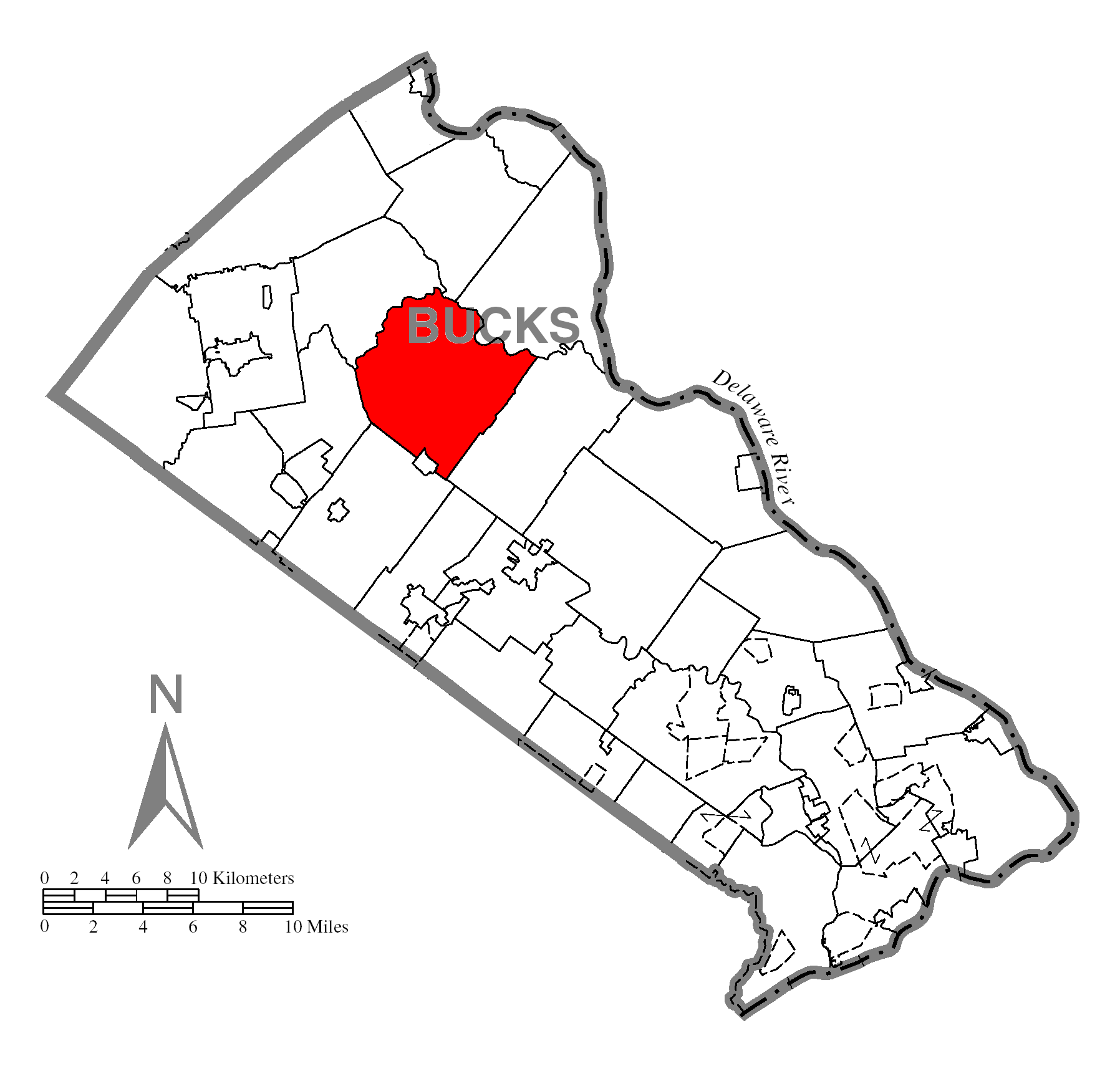 A map of Bucks County showing Bedminster Township, Pennsylvania (alternate) highlighted on the map.